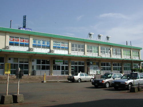 Yoshida Station in Tsubame, Niigata, Japan